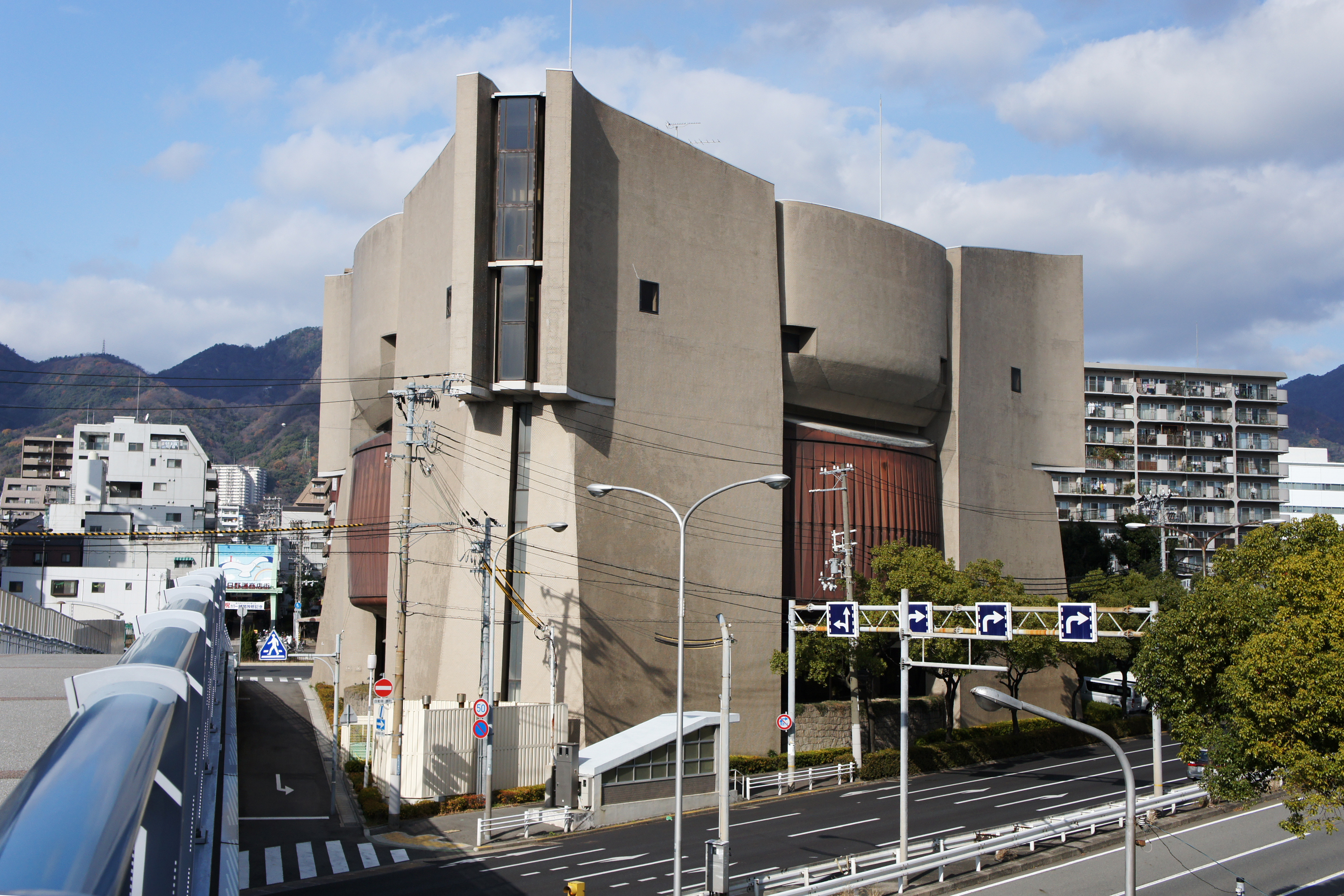 Nishiyama_Memorial_Hall in Kobe, Hyogo prefecture, Japan